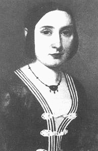 Karolina Světlá